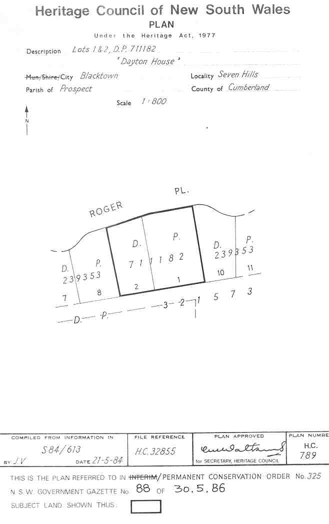 Dayton House, Seven Hills: PCO Plan Number 325